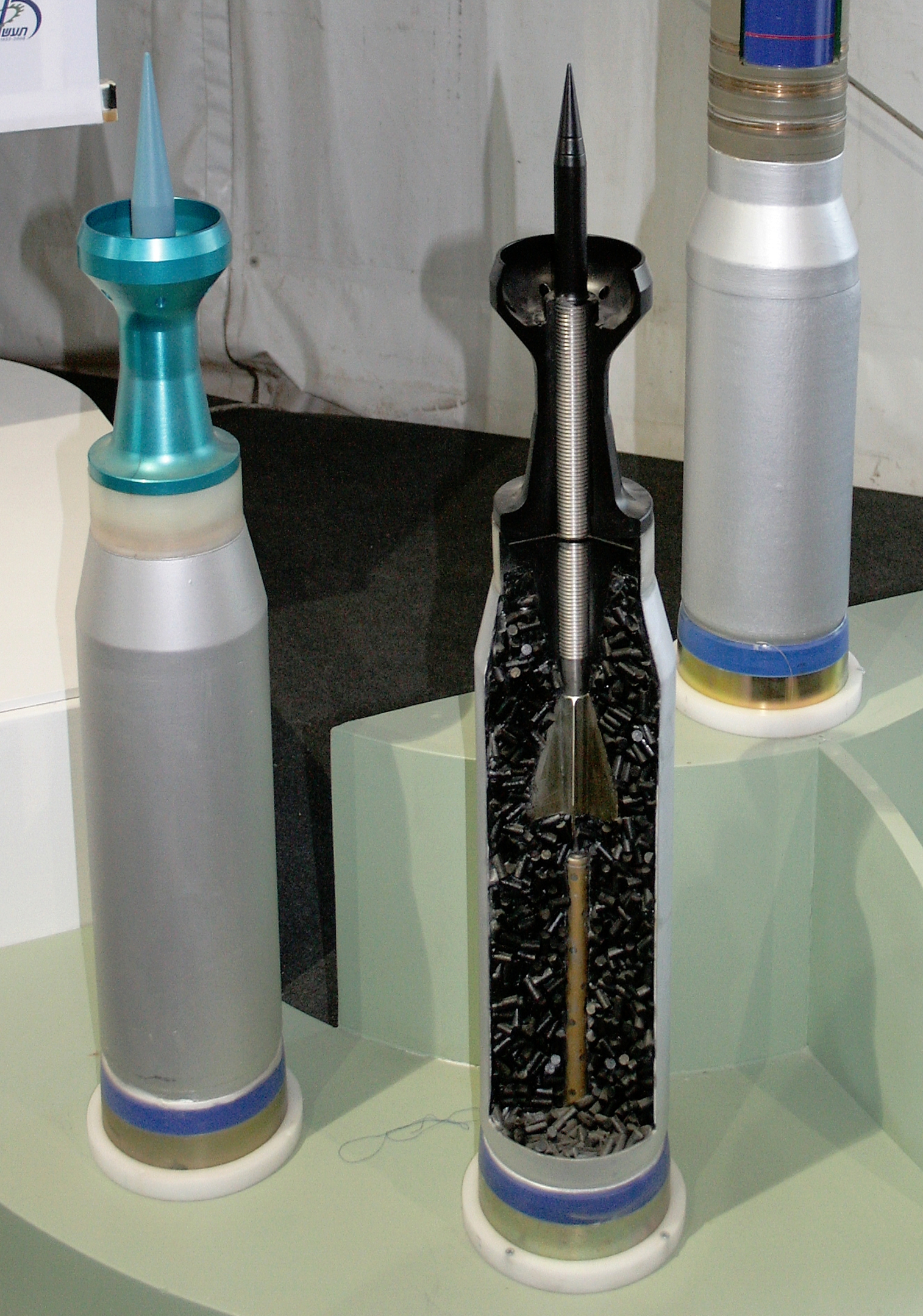 120-mm shells of IMI Left to right: Target practice cone-stabilized discarding-sabot tracered (TPCSDS-T) M324 shell Armour-piercing fin-stabilized discarding sabot (APFSDS) M322 shell